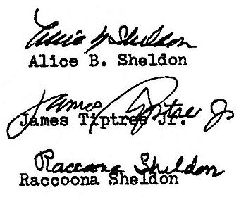 Alice Sheldon, James Tiptree, Jr., Racoona Sheldon signature